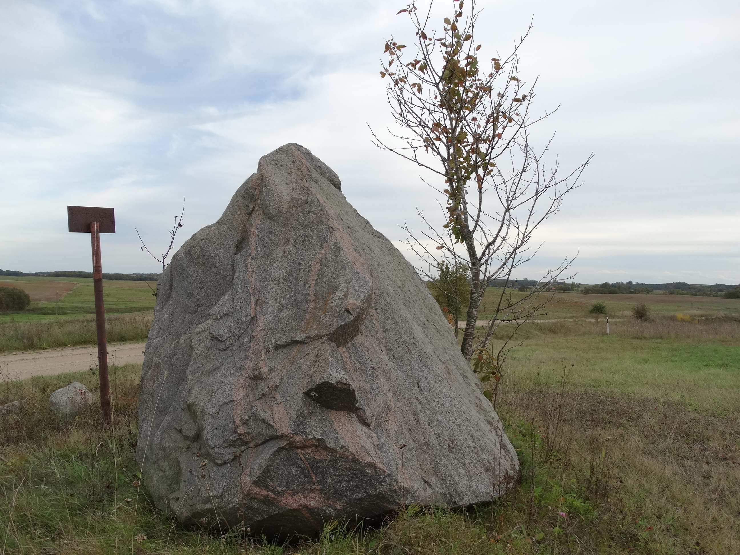 Girgždai stone, Kaišiadorys District, Lithuania